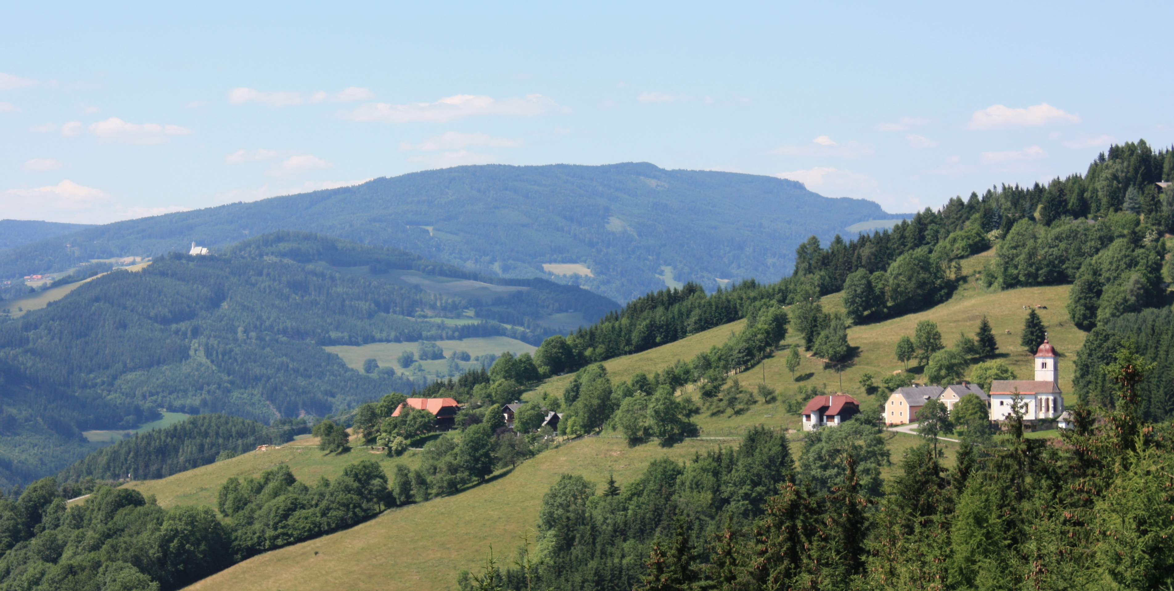 View to Kirchberg Locality:Kirchberg Community:Klein Sankt Paul